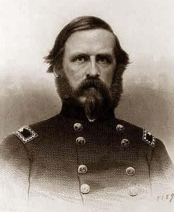 Union Brigadier General Edward A. Wild, a homeopathic doctor and Union officer in the Civil War